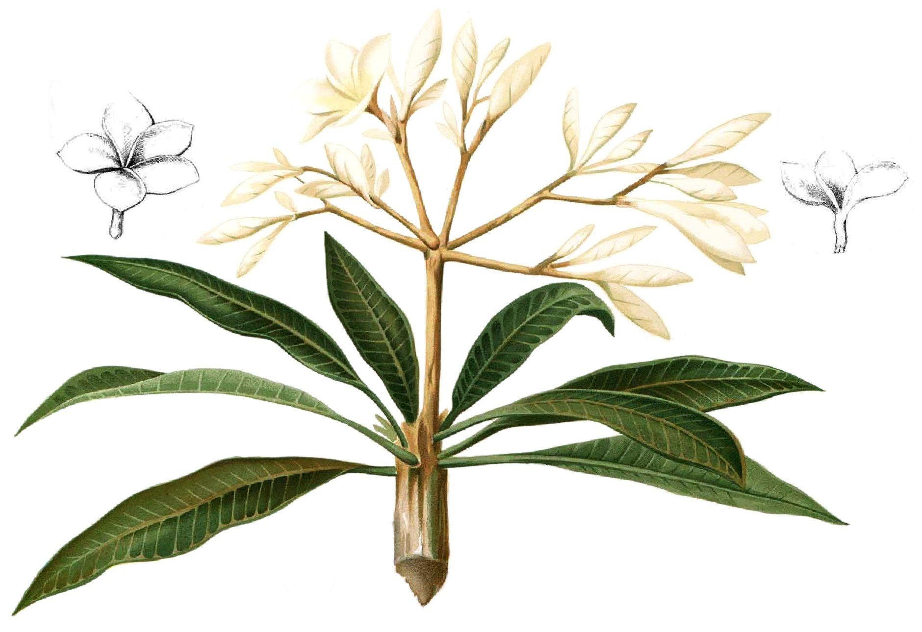 Plate from book